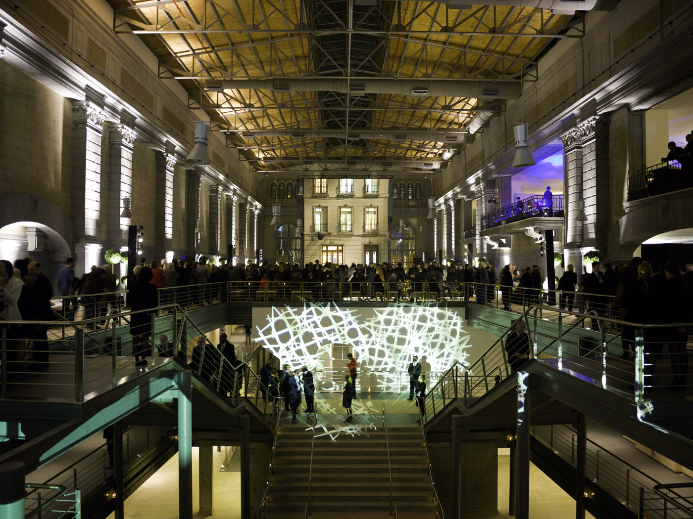 Interior view of the Arts Powerhouse (Usina de las Artes), located in La Boca, Buenos Aires.